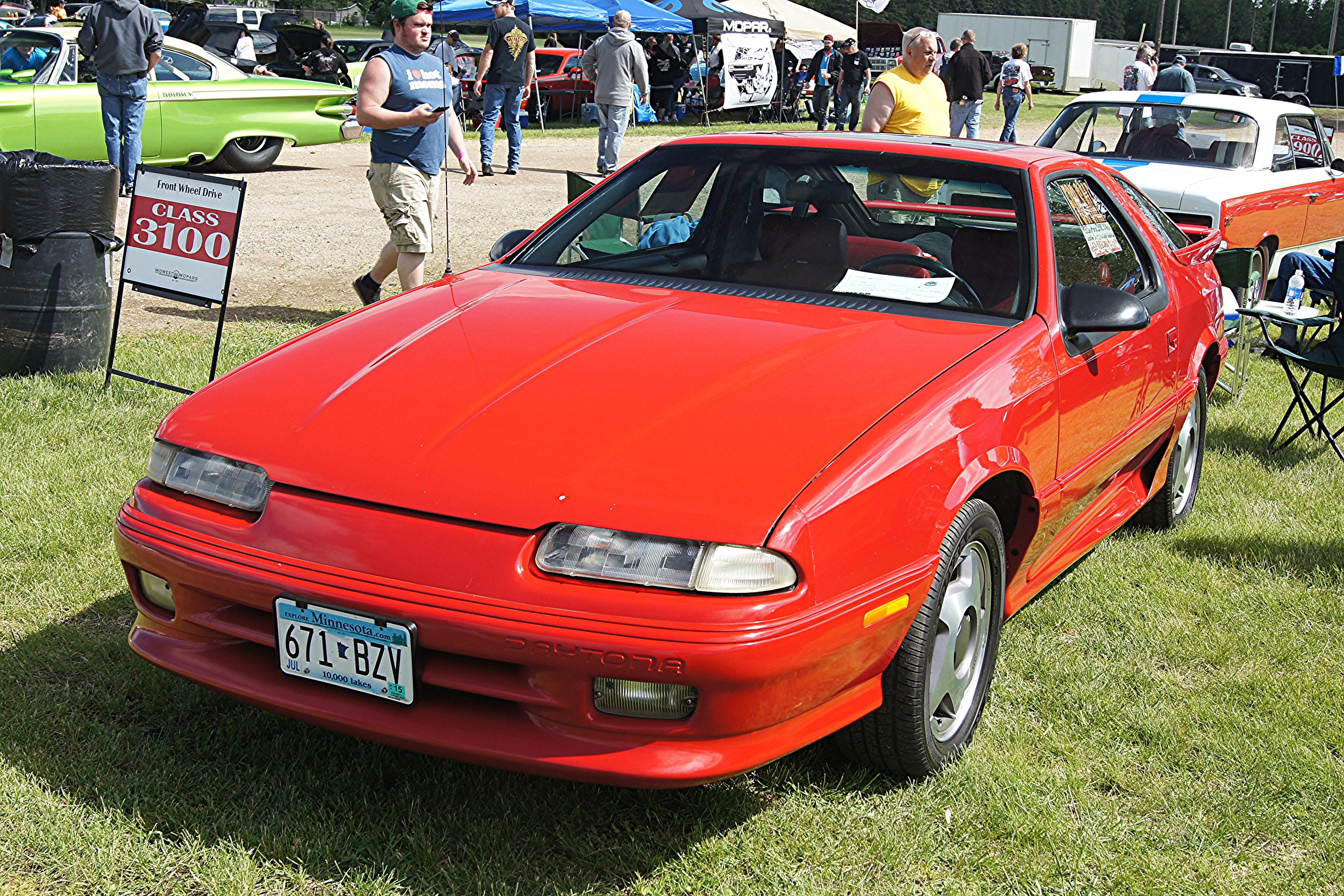 Midwest Mopars in the Park National Car Show & Swap Meet Dakota County Fairgrounds Farmington, Minnesota May 30 & 31, 2015 Click here for more car pictures at my Flickr site.